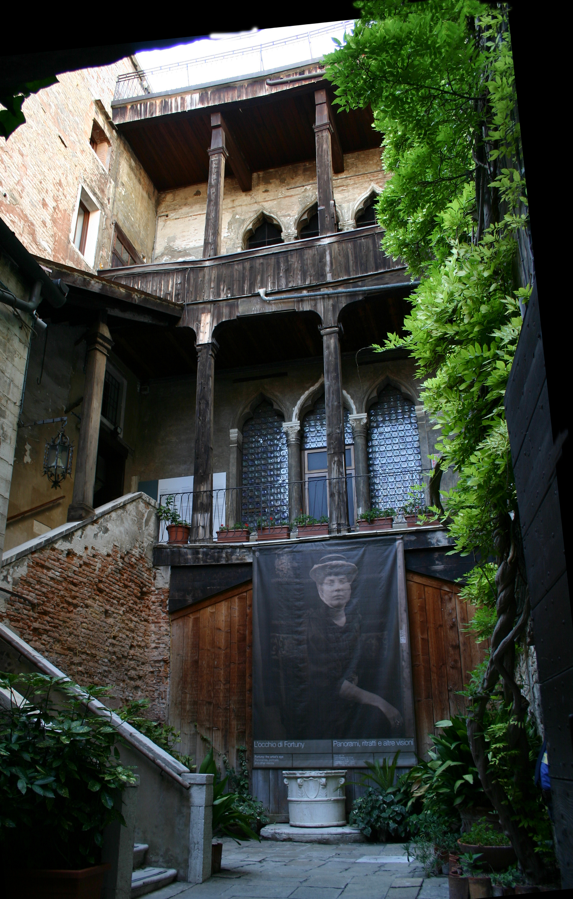 Entrance and courtyard of Palazzo Fortuny (formerly Palazzo Pesaro degli Orfei) in Venice, Italy. Picture by Giovanni Dall'Orto, August 6, 2006.